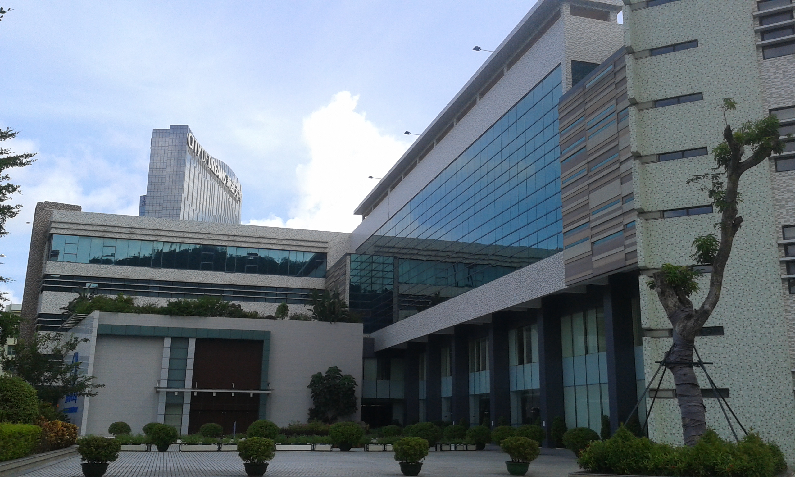 MSTU Library